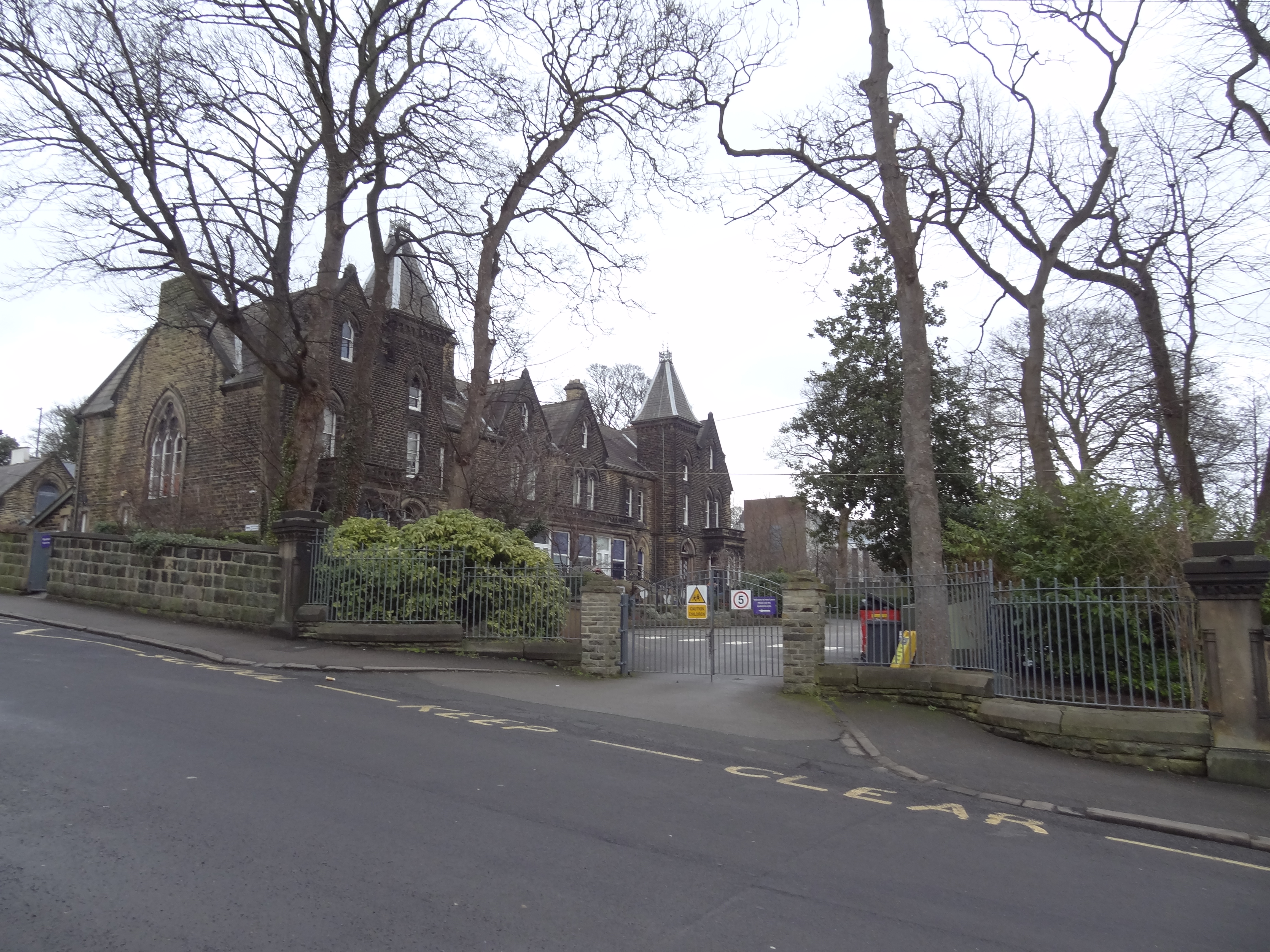 Grade II listed building in Headngley, Leeds